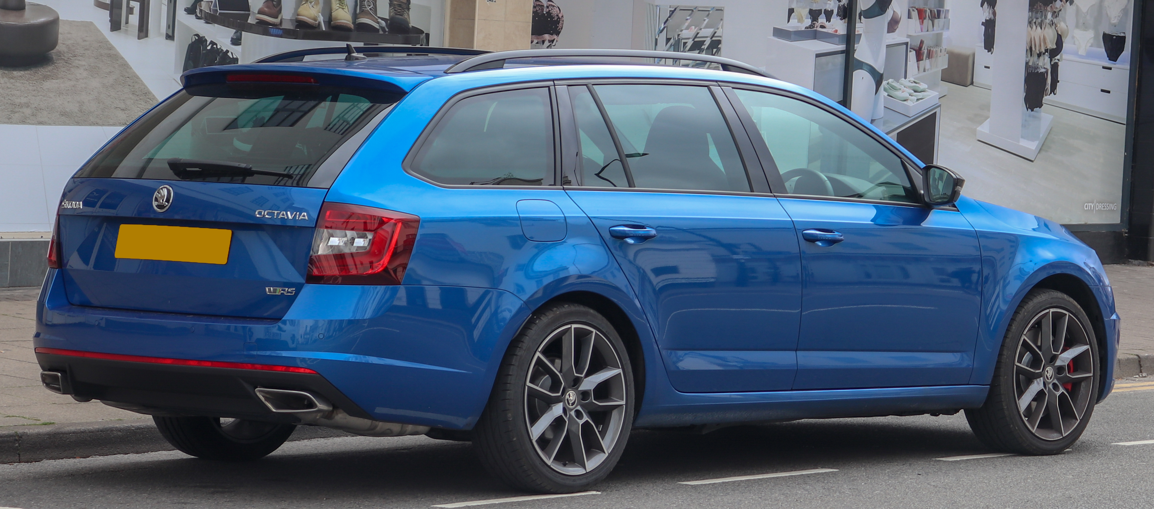 2018 Skoda Octavia VRS TSi 2.0 Rear